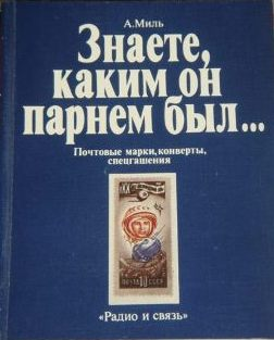 Book by Alexander (Isai) Mill on philatelic Gagariniana. There is an image of one of the Soviet Union stamps devoted to Yuri Gagarin on the book cover.